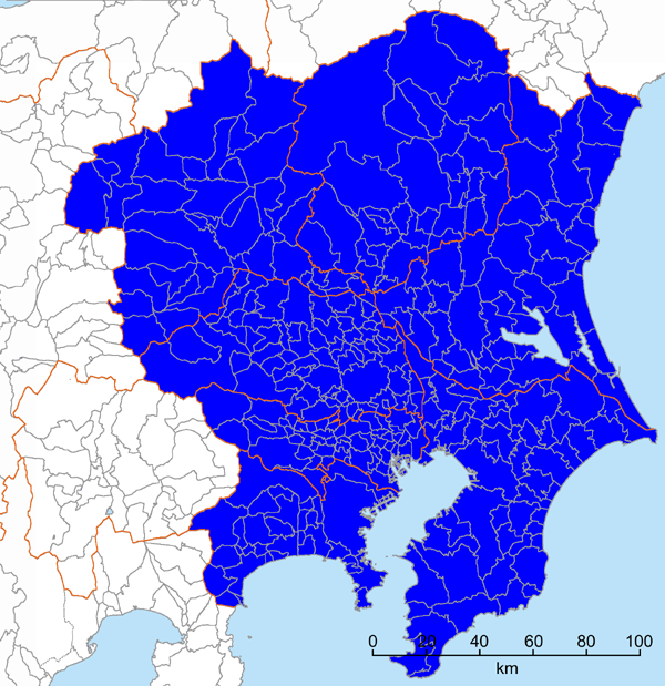 Map of the Kanto region, one of the various definitions of Tokyo/Kanto.